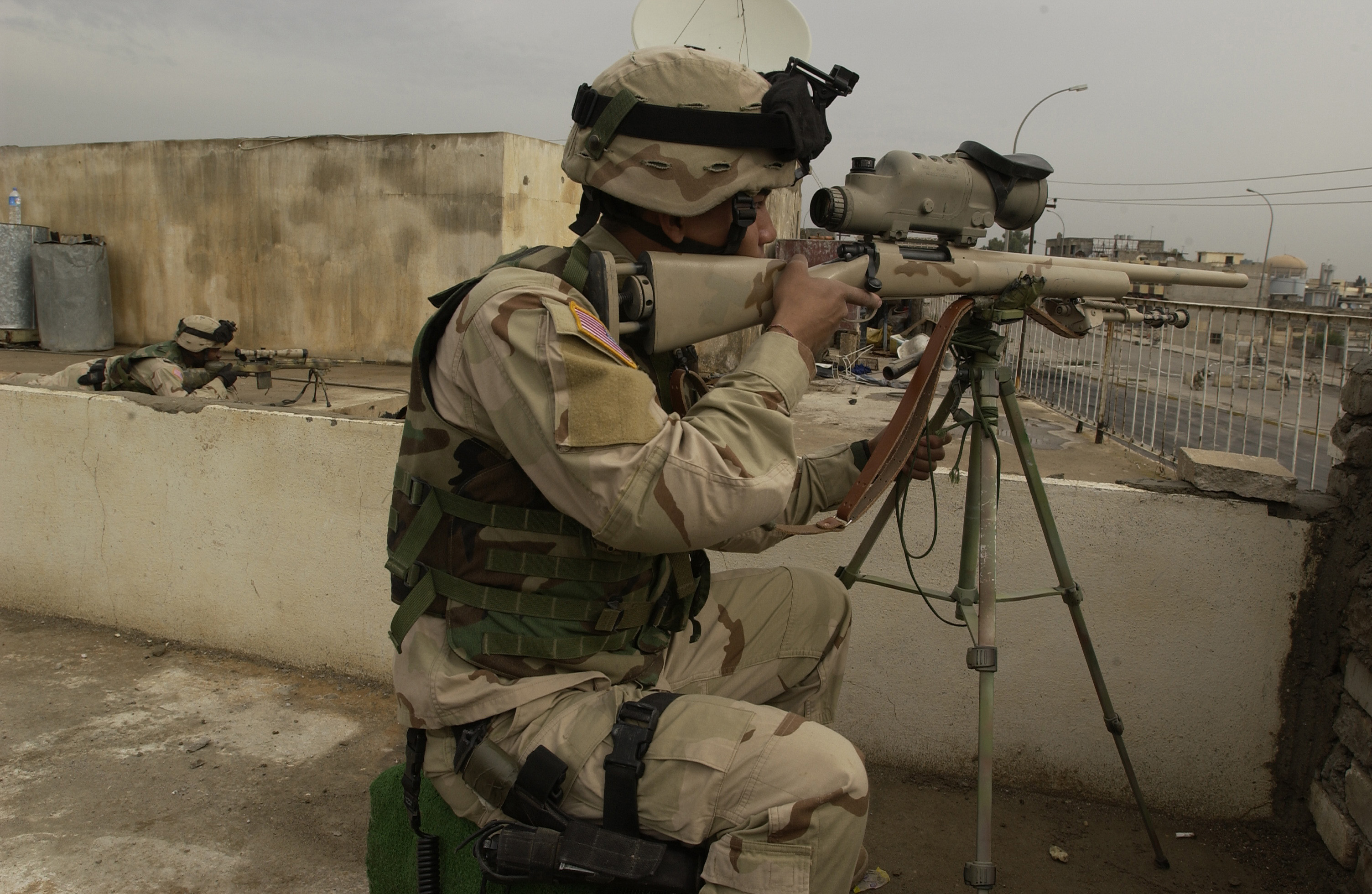 US Army (USA) Specialists (SPC) Chantha Bun (foreground) armed with a 7.62mm M24 sniper rifle, equipped with an AN/PVS-10 Day+Night Vision Sniper Scope, and USA Sergeant Anthony Davis (background), armed with a Accuracy Engineering tactical sniper rifle, scan for enemy activity at 4 West, an Iraqi Police station located in Mosul, Iraq, following an attack by insurgents. Both Soldiers are assigned to Bravo Company snipers, 1st Battalion, 24th Infantry Regiment, 1st Brigade, 25th Infantry Division, Stryker Brigade Combat Team (SBCT), and are deployed to Iraq in support of Operation IRAQI FREEDOM. (Released to Public)